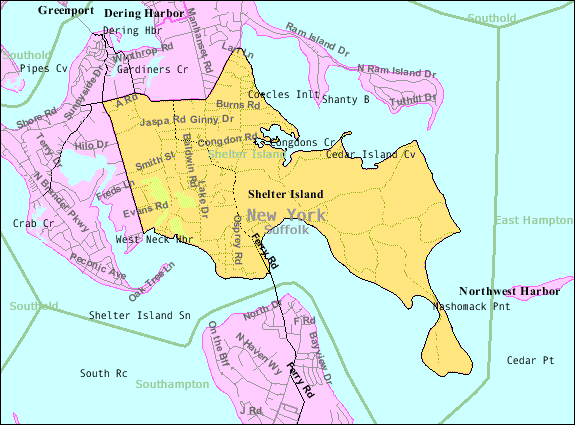 U.S. Census 2000 reference map for Shelter Island